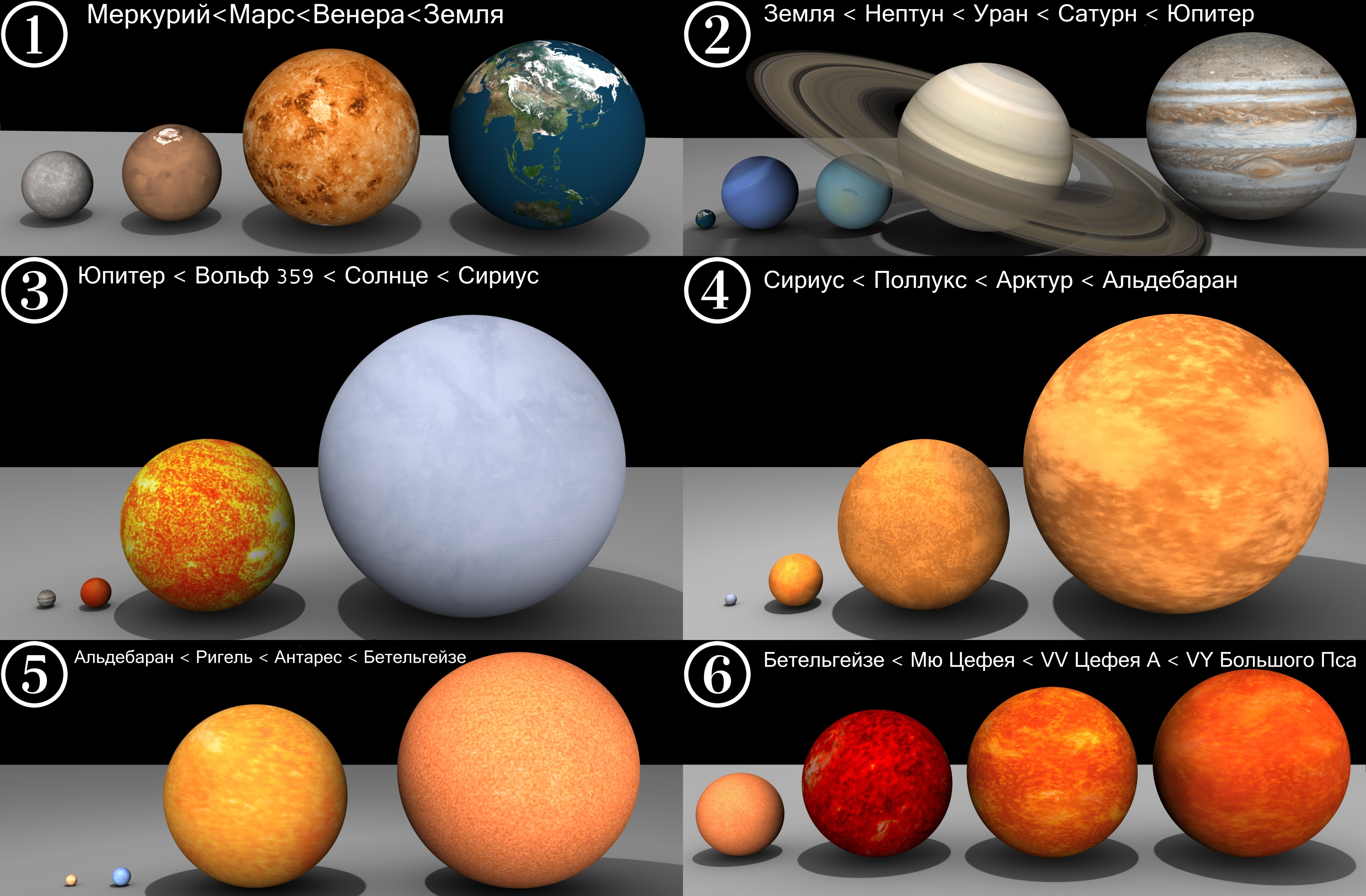 Relative sizes of the planets in the solar system and several well known stars. Star colours are estimated (based on temperature) and Saturn's rings are shown slightly larger in the picture than to scale. Blender 3D was used for the models, lighting, and rendering. The GIMP was used to assemble and label the six renders into a single image. Wolfram Alpha was used to calculate each star's base colour through Wien's Law. The relative sizes of stars in terms of their representative solar radius were calculated for all stars in each frame. Texture maps for stars were created using images of the Sun from SOHO. Planetary texture and bump maps (excluding Earth) were from Celestia Motherlode. Lastly, Earth's texture and bump map were obtained from Natural Earth III.